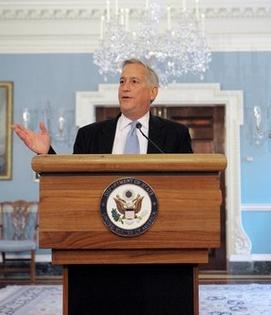 Walter Isaacson, Chairman of the U.S.-Palestinian Partnership, at a State Department briefing, April 29, 2008. Photograph released by the U.S. State Department.